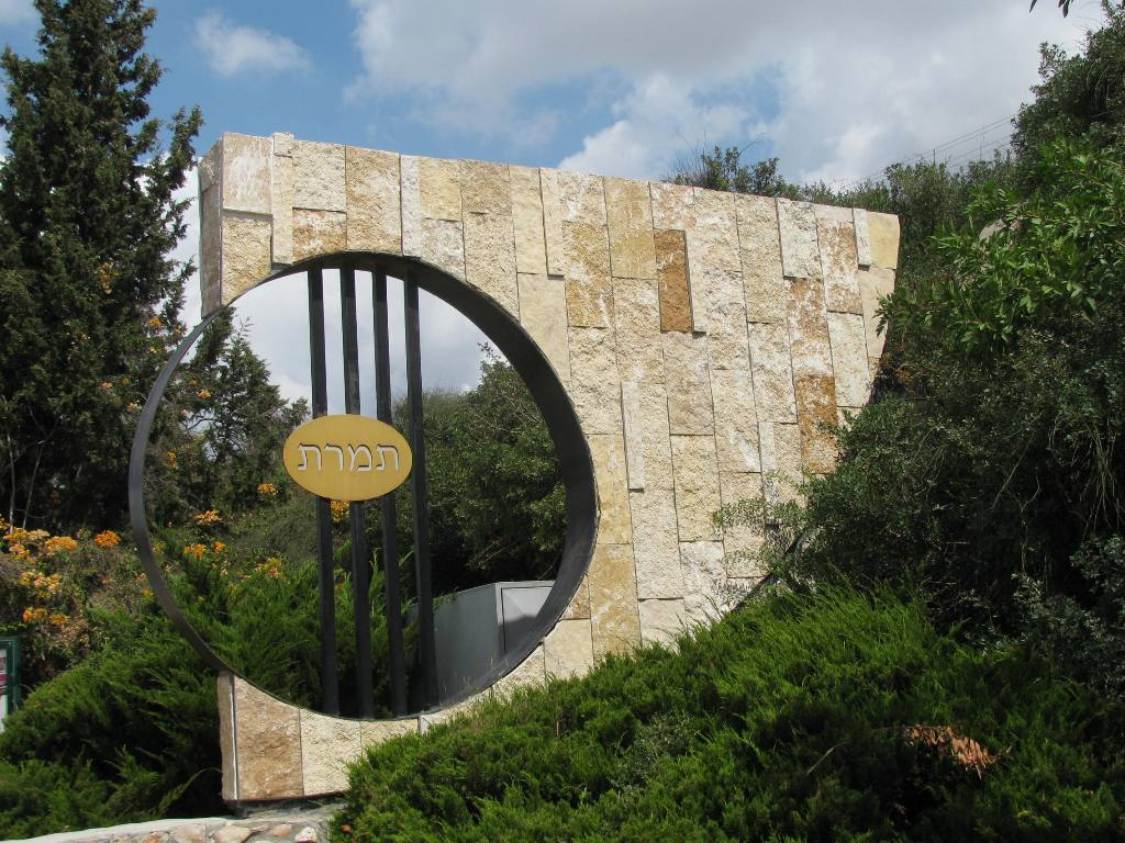 Shaped sign at the entrance to Moshav